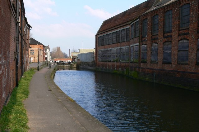 North Lock and North Bridge on the Grand Union Canal in Leicester.